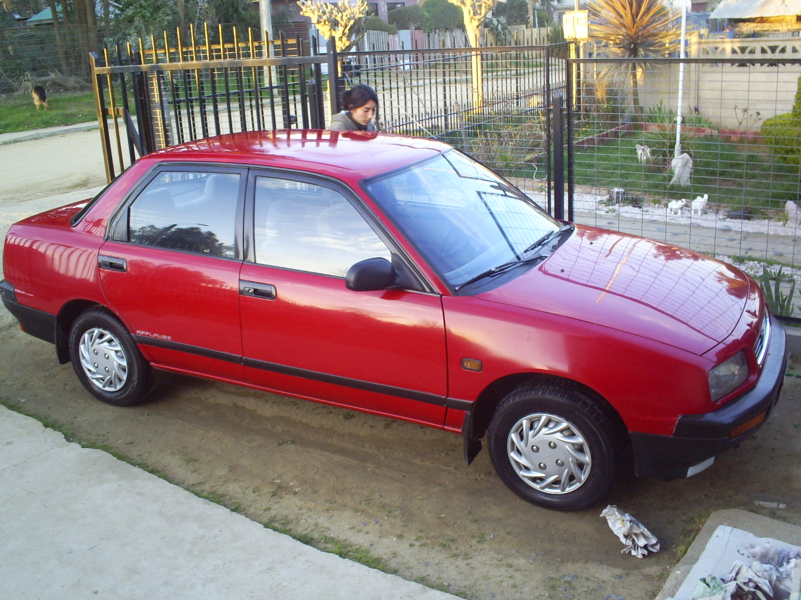 Daihatsu Applause 1994